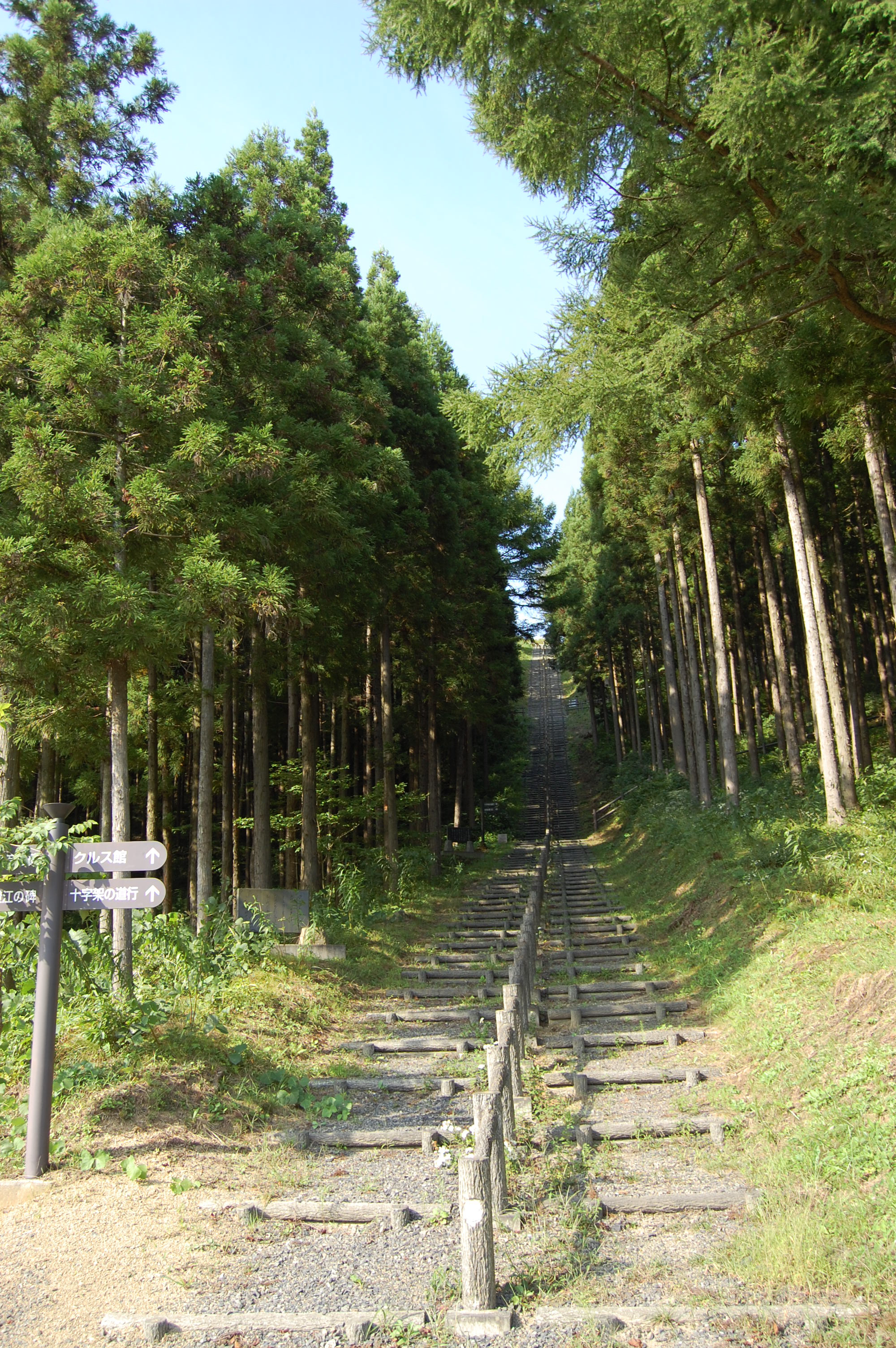 The staircase for Kurusu Museum